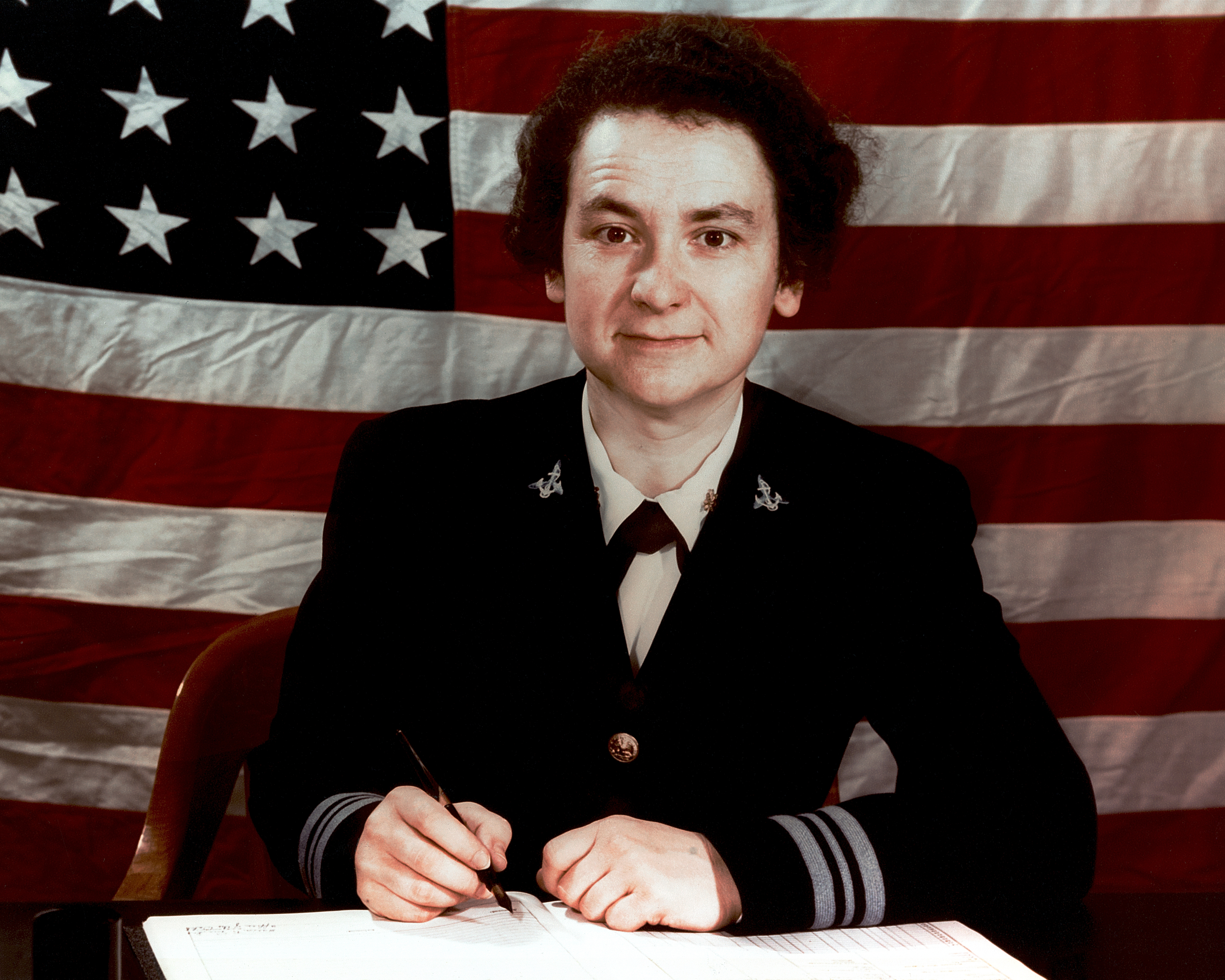 Lieutenant Commander Mildred H. McAfee, USNR while serving as Director of the W.A.V.E.S. Photo #: 80-G-K-13616-A